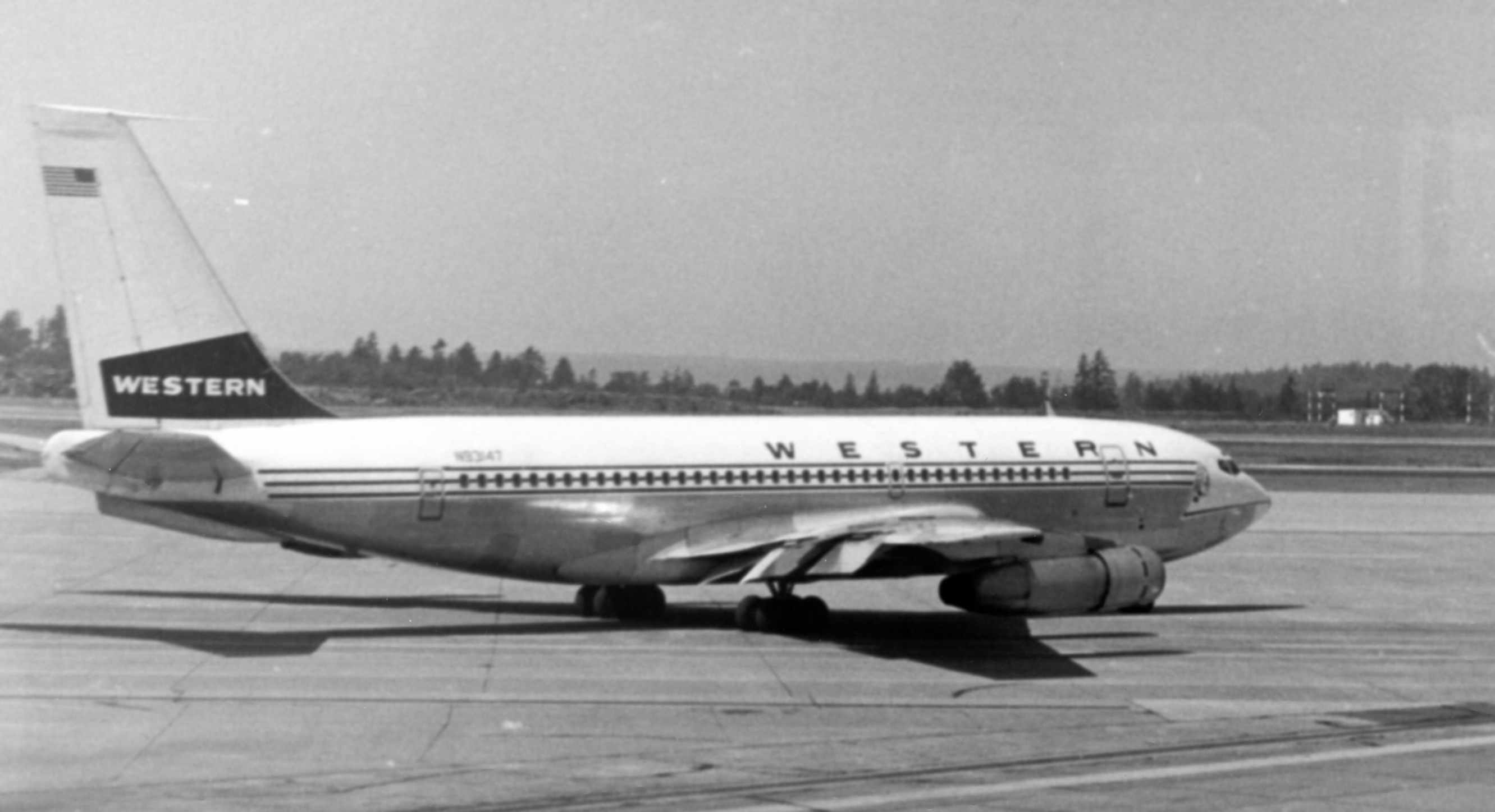 United States, Seattle–Tacoma International Airport. Western Airlines Boeing 720-047B, N93147, c/n 18453/314, delivered on August 28, 1962 to Western Airlines. Sold in 1977 to Sheikh Kamal Adham and registered HZ-KA4. Sold to JR Executive Aviation in 1992, registered P4-NJR and based in Aruba. Since November 6, 2002 was transferred to Queen Beatrix International Airport .